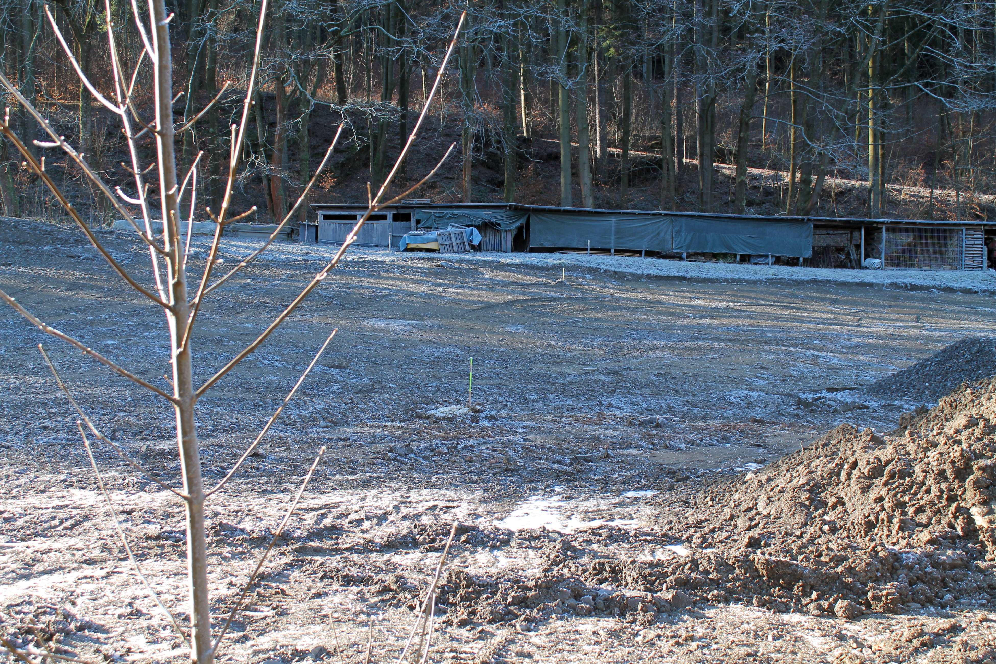 Pöhla-Globenstein Mine. Location of yet to be built exploration shaft.